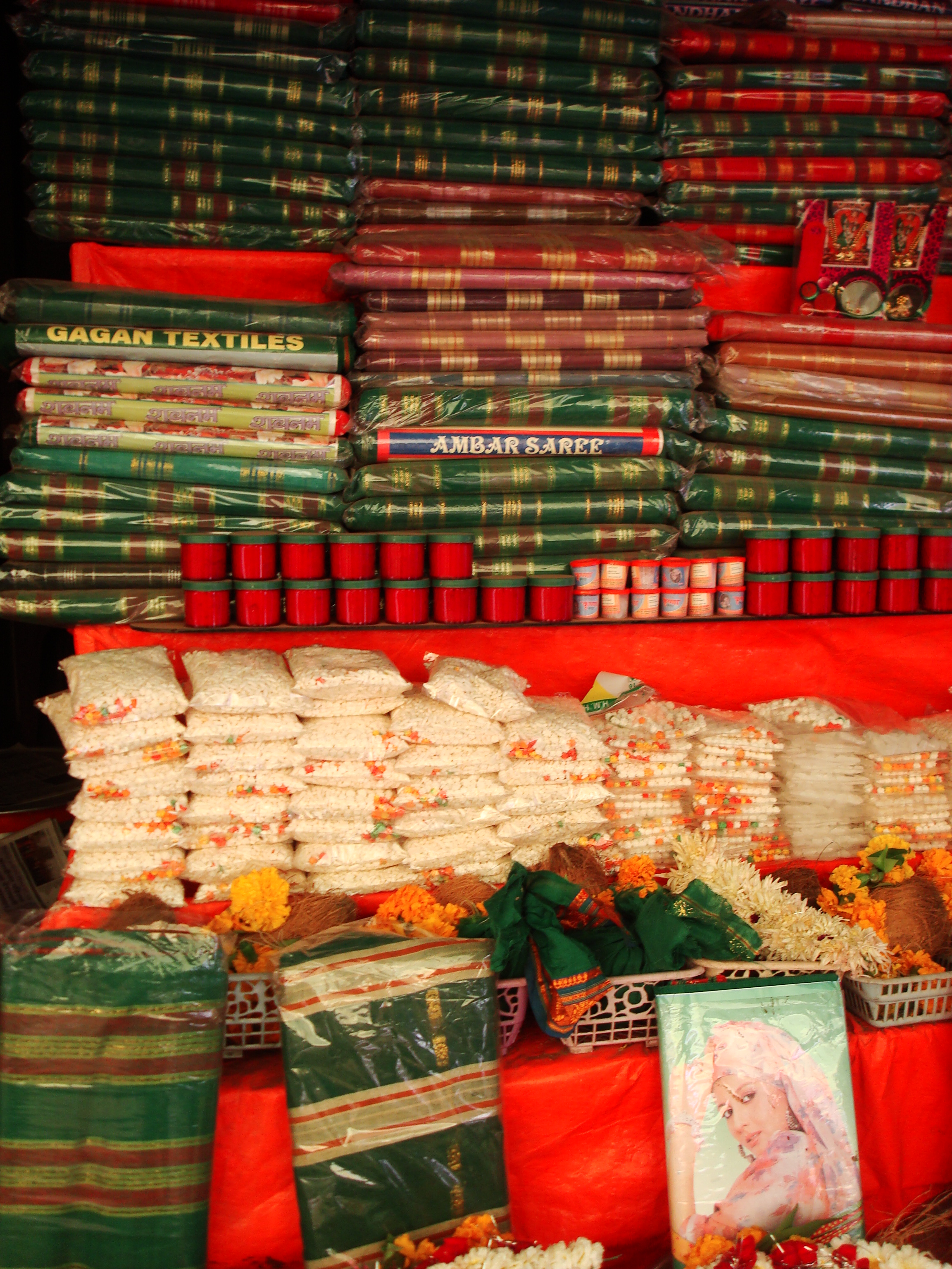 Shops at Saptashrungi temple.